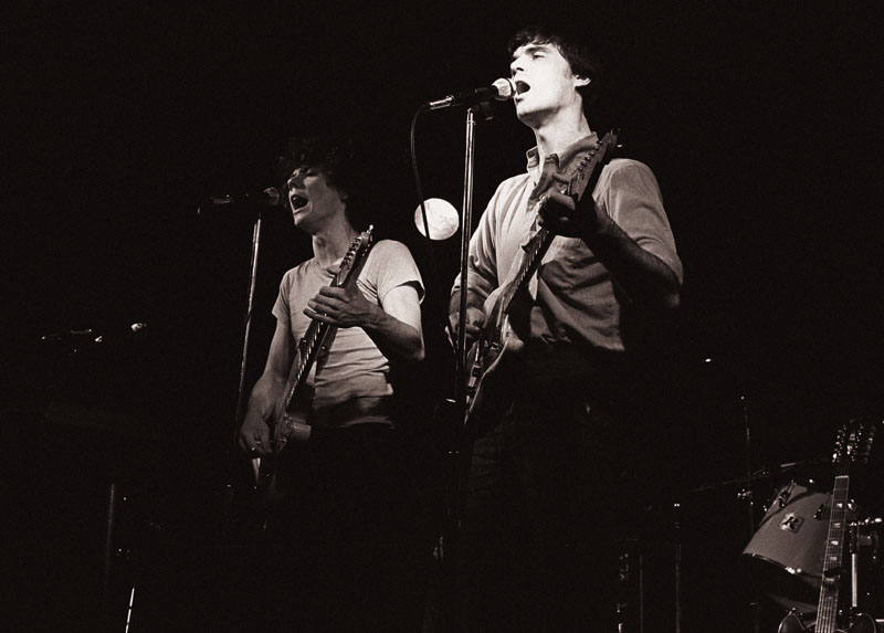 Jerry Harrison & David Byrne; Talking Heads August 25 & 26, 1978, Jay's Longhorn Bar, Minneapolis, MN